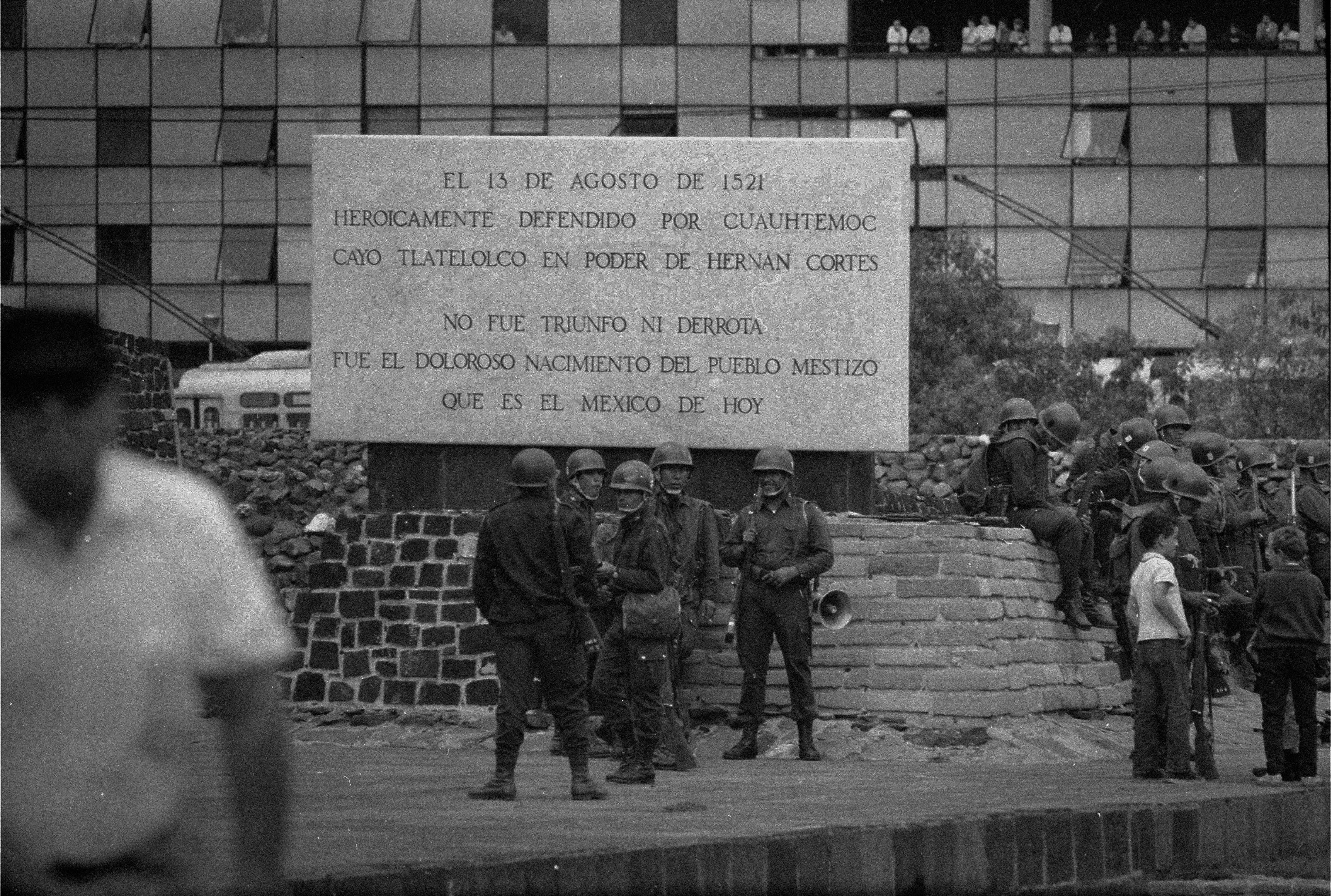 Images of Mexico City Student Movement, October 1968.